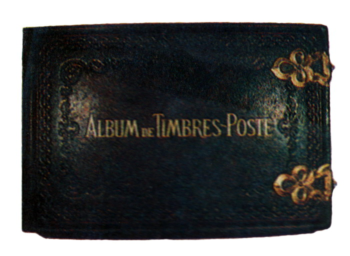 One of the first albums for stamps